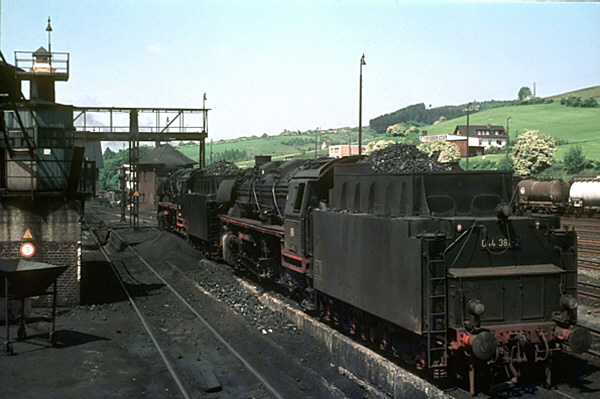 German DRG Class 44 locomotives at Bahnbetriebswerk Ottbergen.